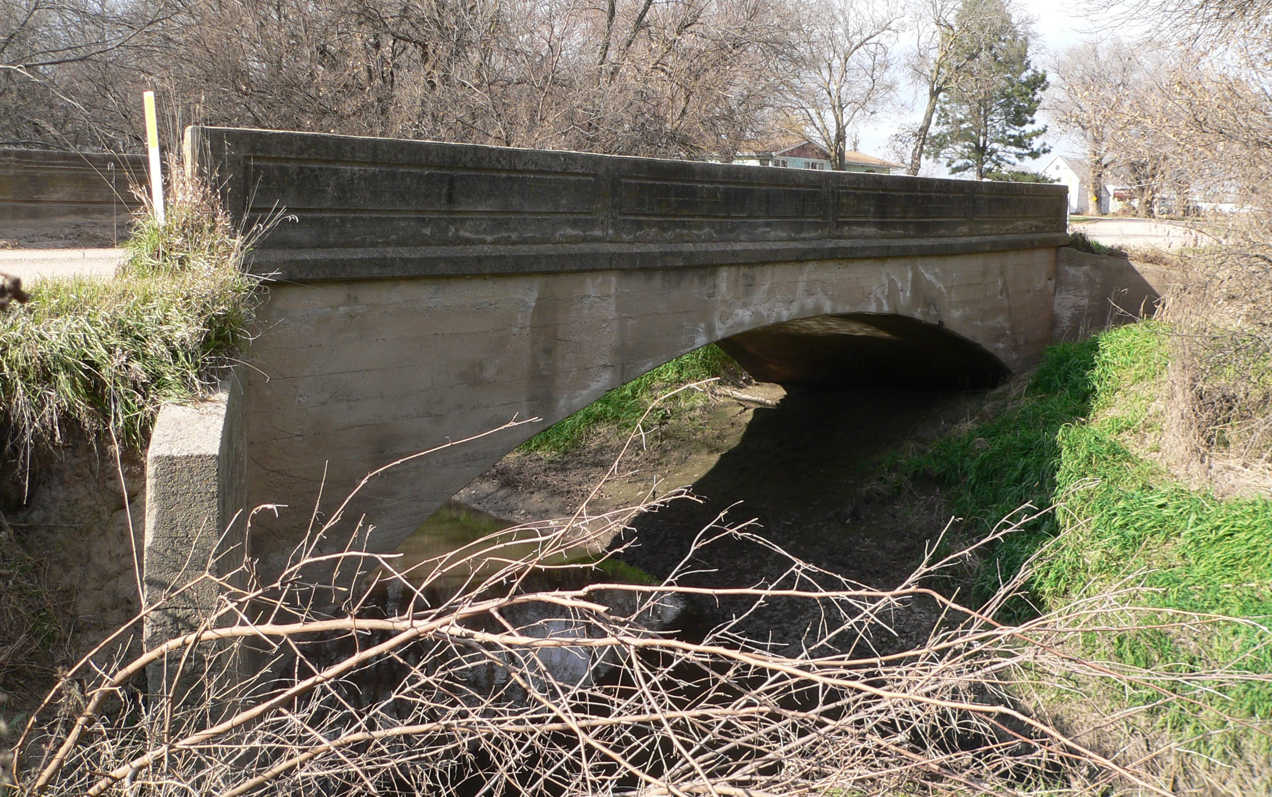 Deering Bridge, near Sutton, Nebraska; seen from the southeast (downstream). The bridge is located on the county line between Clay and Fillmore counties, where the county-line road crosses School Creek. The concrete spandrel arch bridge was built in 1916 by the Nebraska Bureau of Roads & Bridges and the Lincoln Construction Co. It is listed on the National Register of Historic Places.